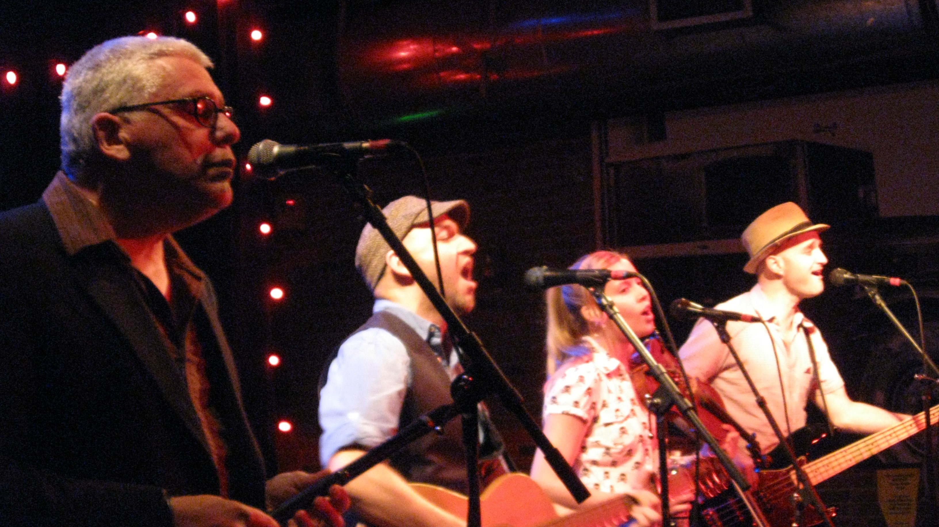 The Paperboys perform California Tractor Tavern Seattle 060608